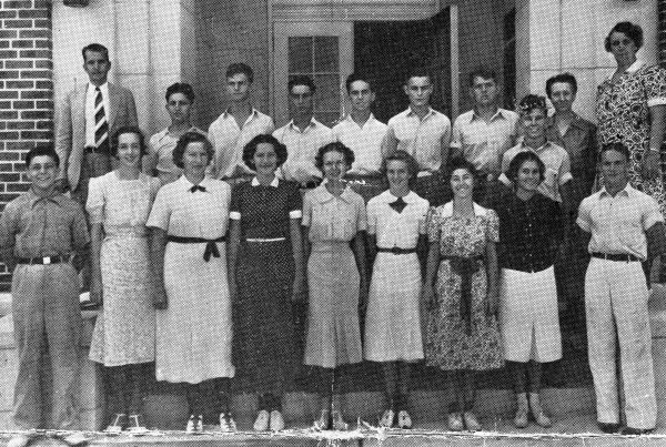 Photo of the first graduating class of Duncan U. Fletcher High School